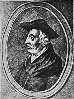 Bacon's face